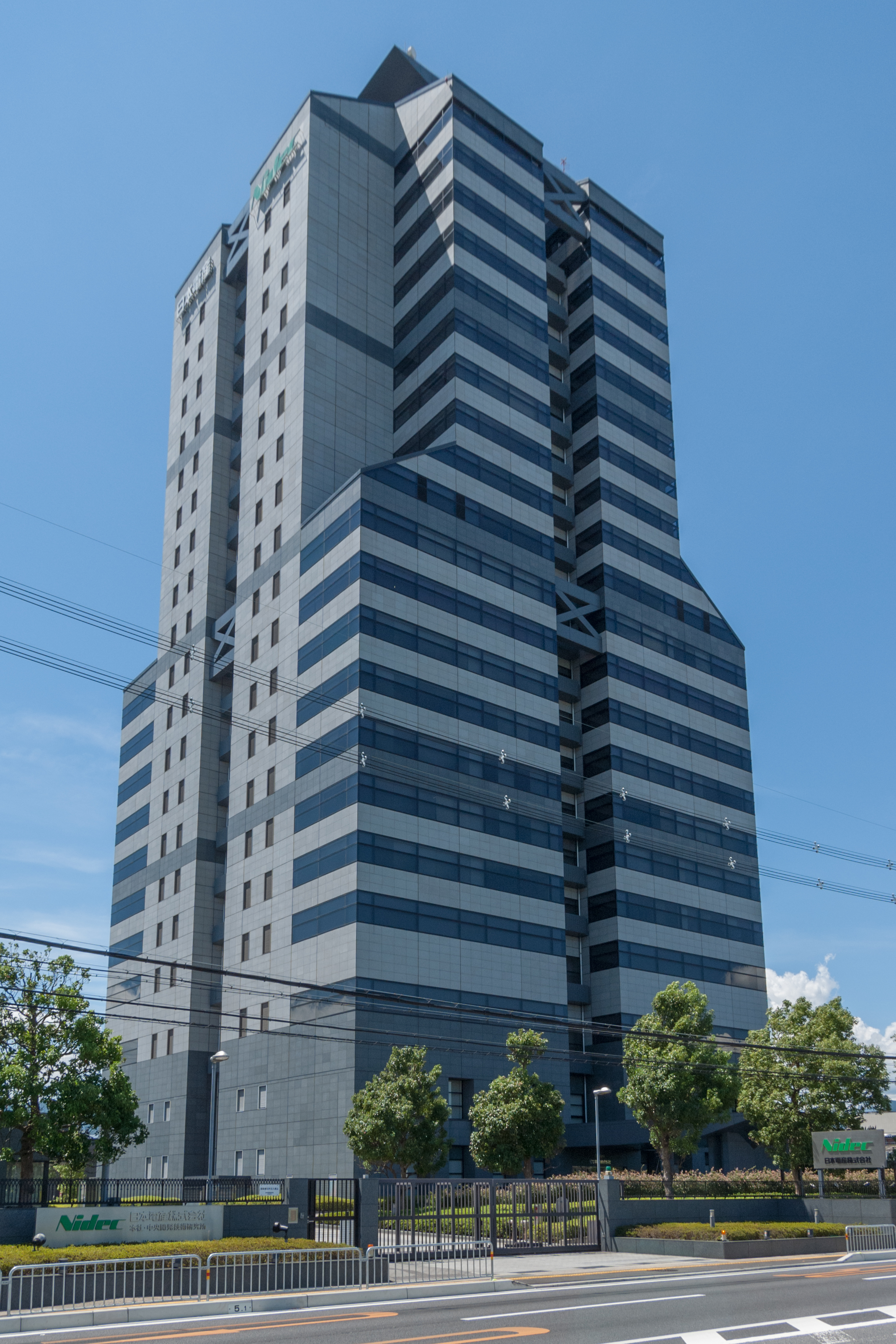 Photograph of the southeast view of Nidec Headquarters and Central Technical Laboratory in Minai-ku, Kyoto, Kyoto Prefecture, Japan.